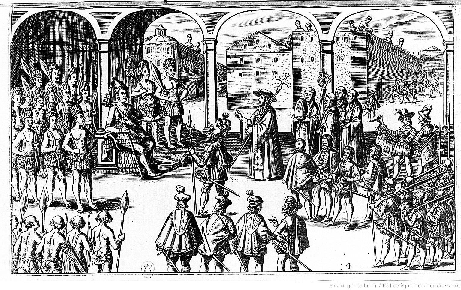 Attabalipa, l'Empereur des Incas en 1532